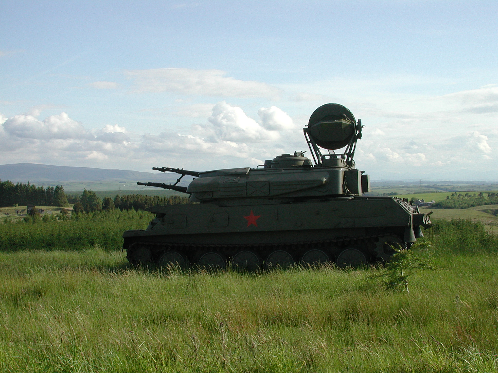 ZSU-23-4 Shilka, taken on the RAF Airforce base Spadeadam, Scotland